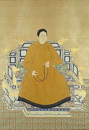 The Official Imperial Portrait of Qing Dynasty's Empresses